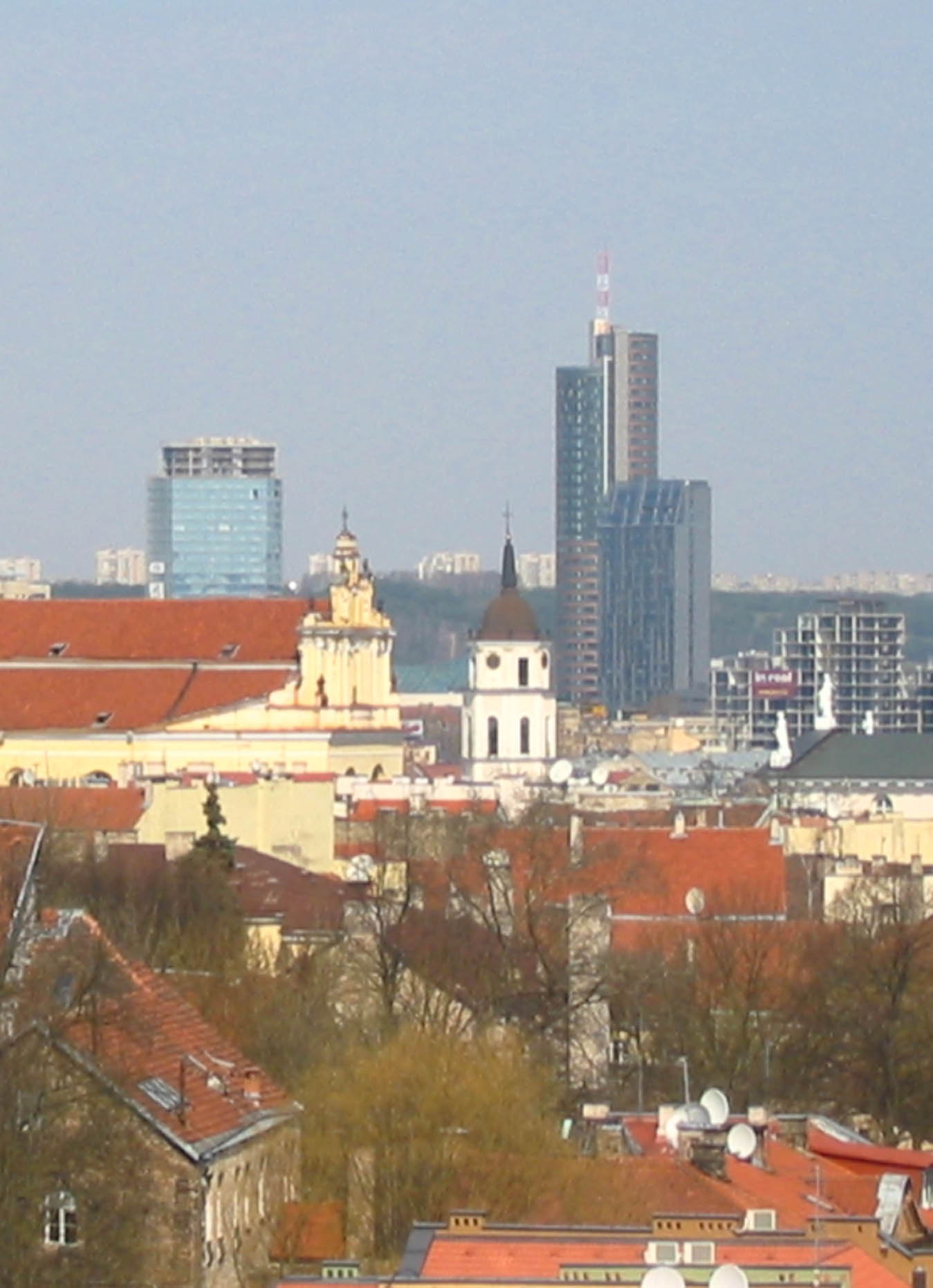 Resized and cropped version of :commons:Image:Vilnius old city.JPG. Author is :de:Benutzer:Mastaart, uploaded to commons by User:Jcornelius. Original licence is GFDL.